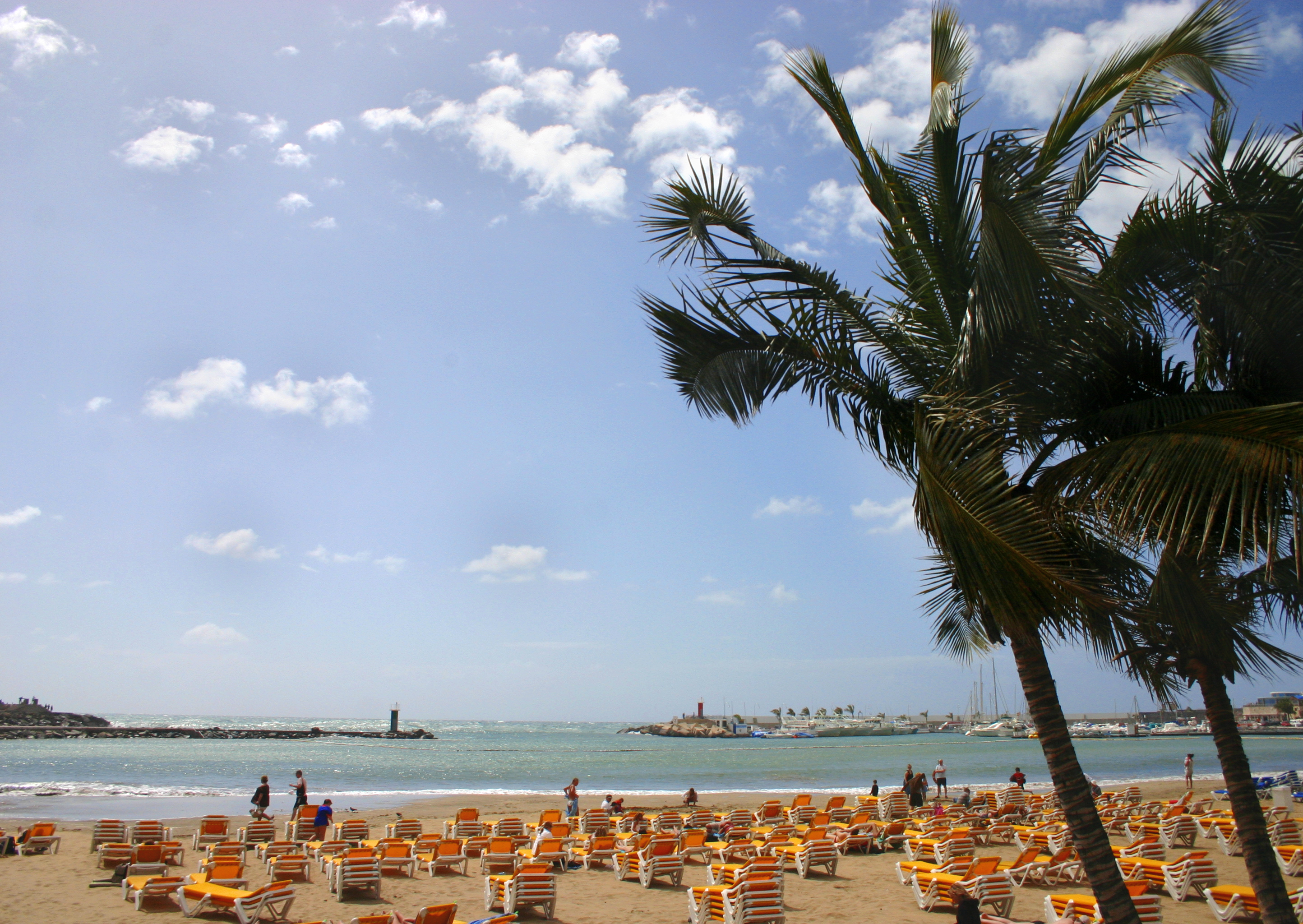 "Puerto Rico" Beach, Mogán (Gran Canaria). Canary Islands. Spain.